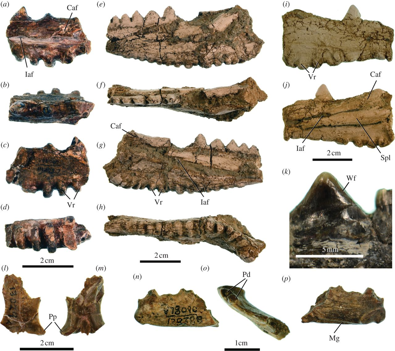 Holotype (UCMP 142227, a–d) and other fossil material (NMMP-KU 1923, e–h NMMP-KU 1925, i–j; UCMP 170491, n–p) of Barbaturex morrisoni. Caf, articular facet for coronoid; Iaf, inferior alveolar foramen; Mg, Meckelian groove; Pd, pleurodont dentition; Pp, parietal process of frontal; Spl, splenial; Vr, ventral ridges; Wf, wear facets.